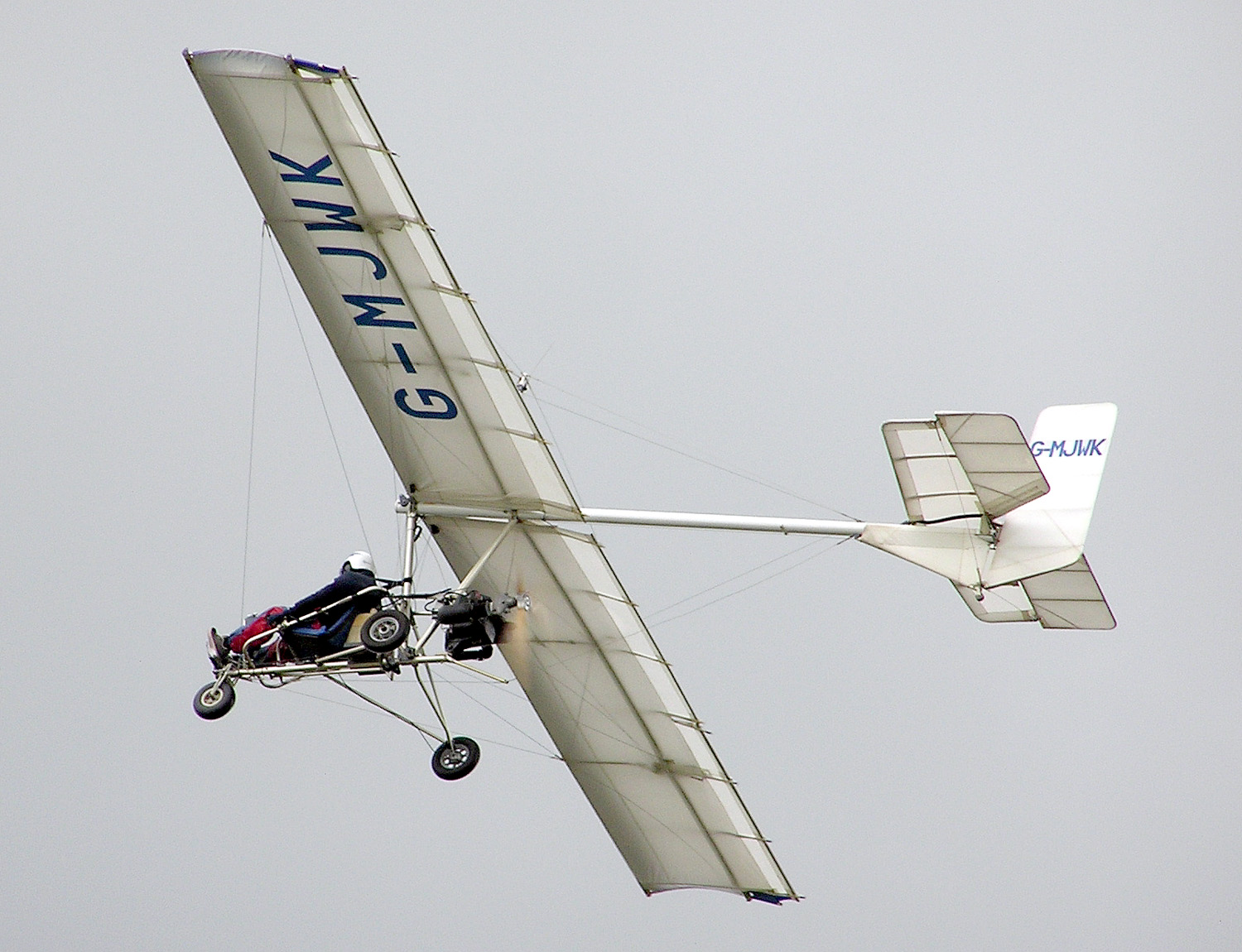 Huntair Pathfinder Mark 1 ultralight (G-MJWK) at Kemble Air Day, Kemble, Gloucestershire. Built 1982. The engine is one Rotax 447. Taken by Adrian Pingstone in June 2004 and released to the public domain.